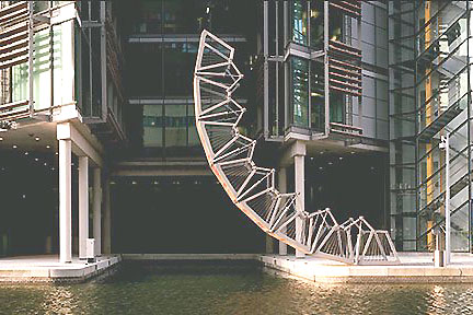 Excerpt of image:Curlingbridge.jpg. Contrast enhanced and sharpened for Bridge article thumb. Derivative work of original taken by by User:Dbiv and released under GFDL.